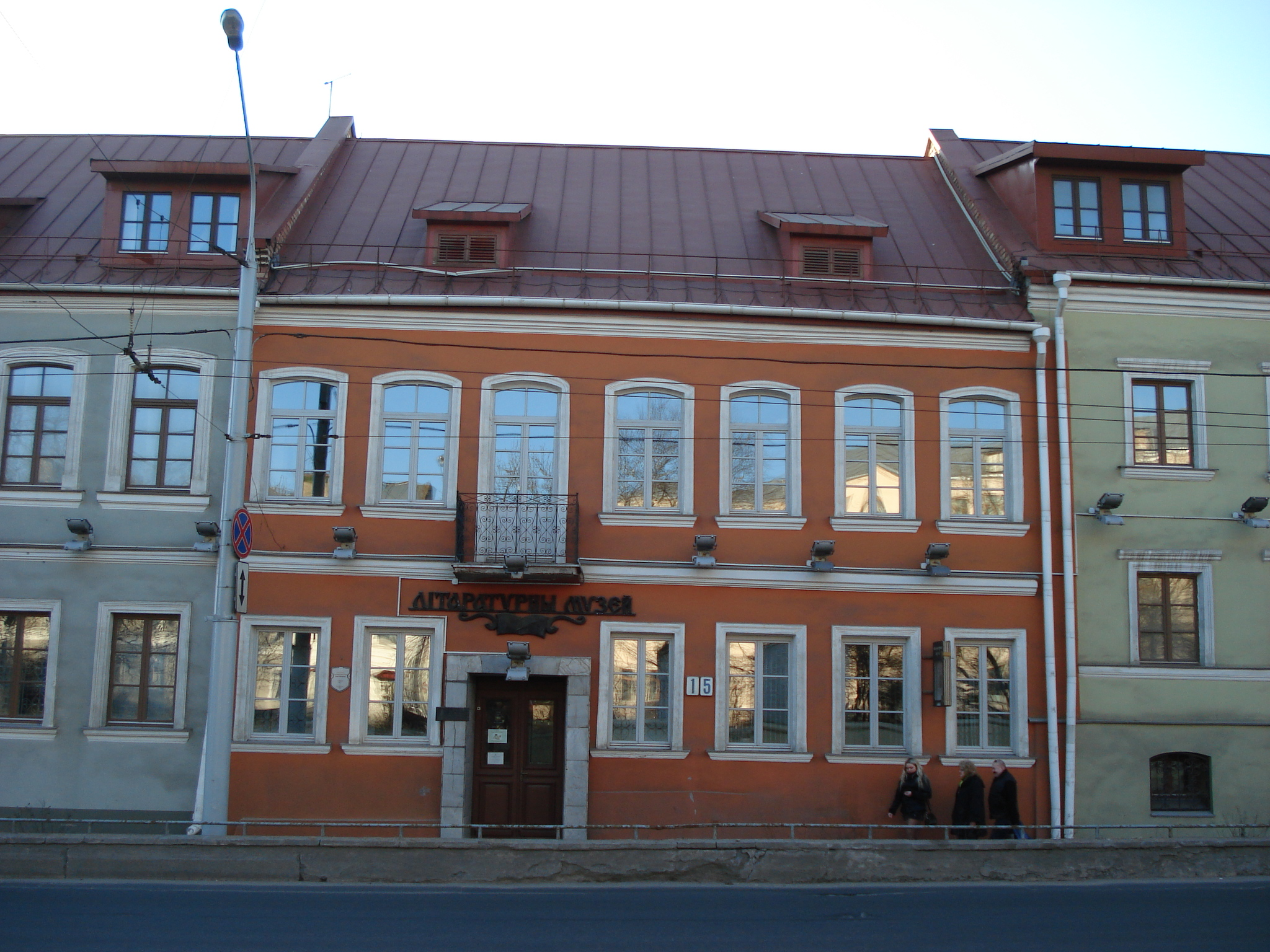 Traeсkaje suburb